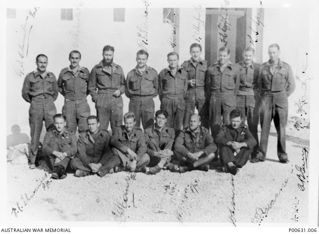 Autographed group portrait of some Air Force prisoners of war at the POW Campo PG 78